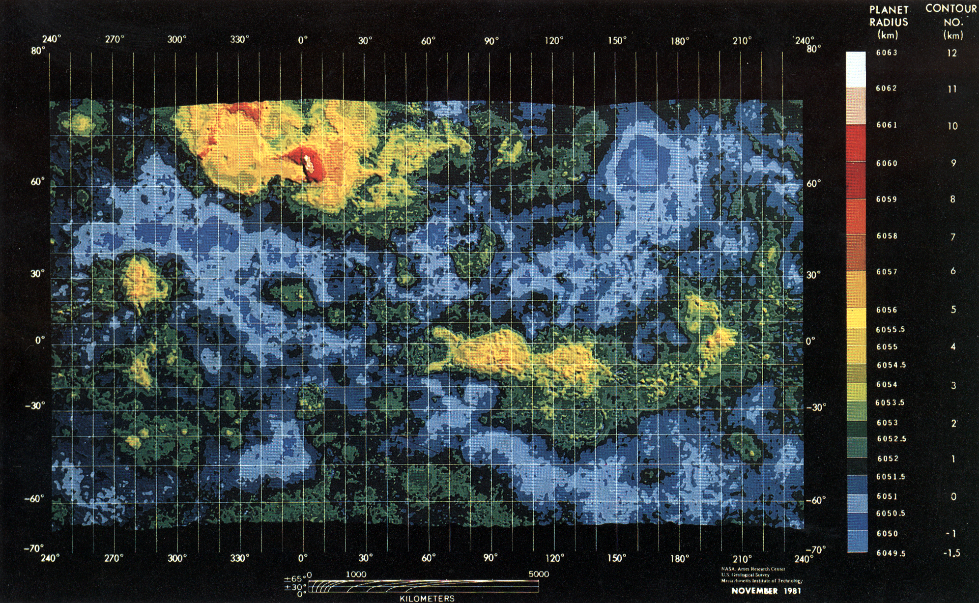 Topográfico Map of Venus from Pioneer Venus (Mercator Projection).